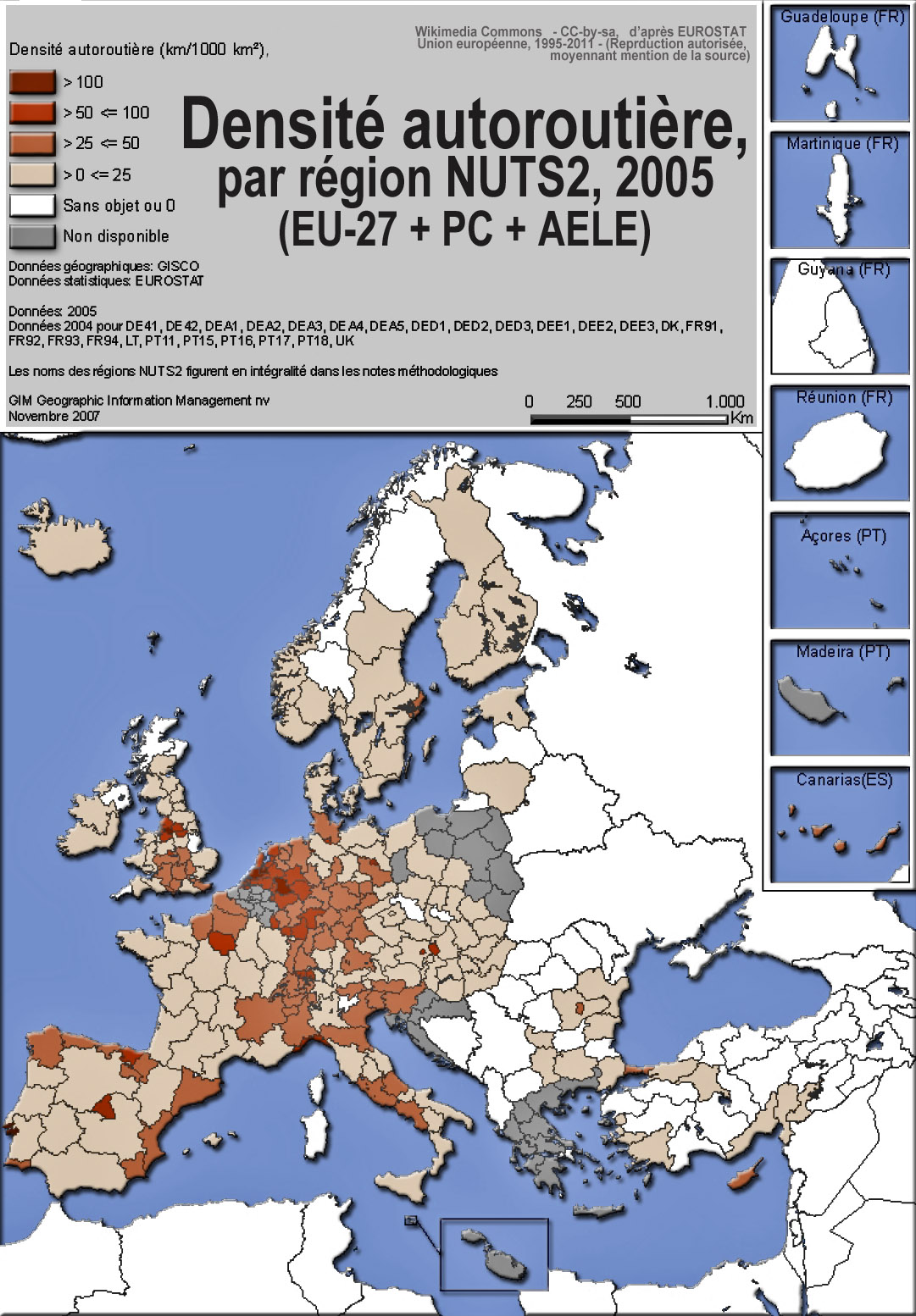 Map of the motorway density (according to Eurostat; European Transport: Regional Networks highway transportation , showing that "the highest densities are not limited to capital regions" according to Eurostat statistics (Bulletin: statistics in Focus, with Copyright held by the European Union, 1995-2011, stating "Reproduced with the permission , provided the source, unless otherwise specified "